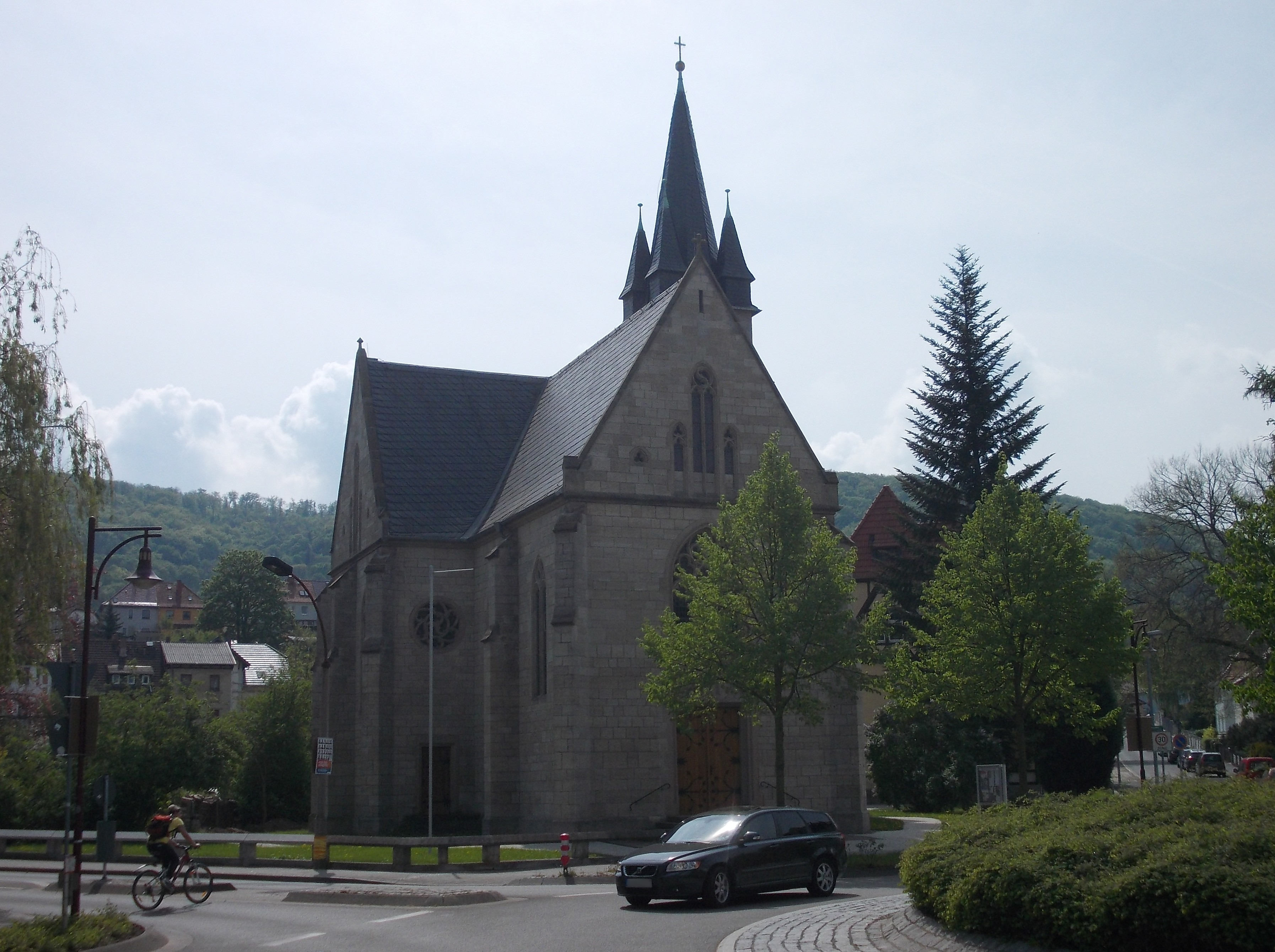 Roman Catholic St. Elisabeth Church in Sondershausen (district: Kyffhäuserkreis, Thuringia)